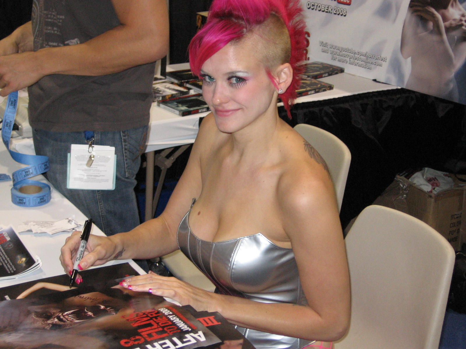 Melissa Jones: Miss Horrorfest 2007